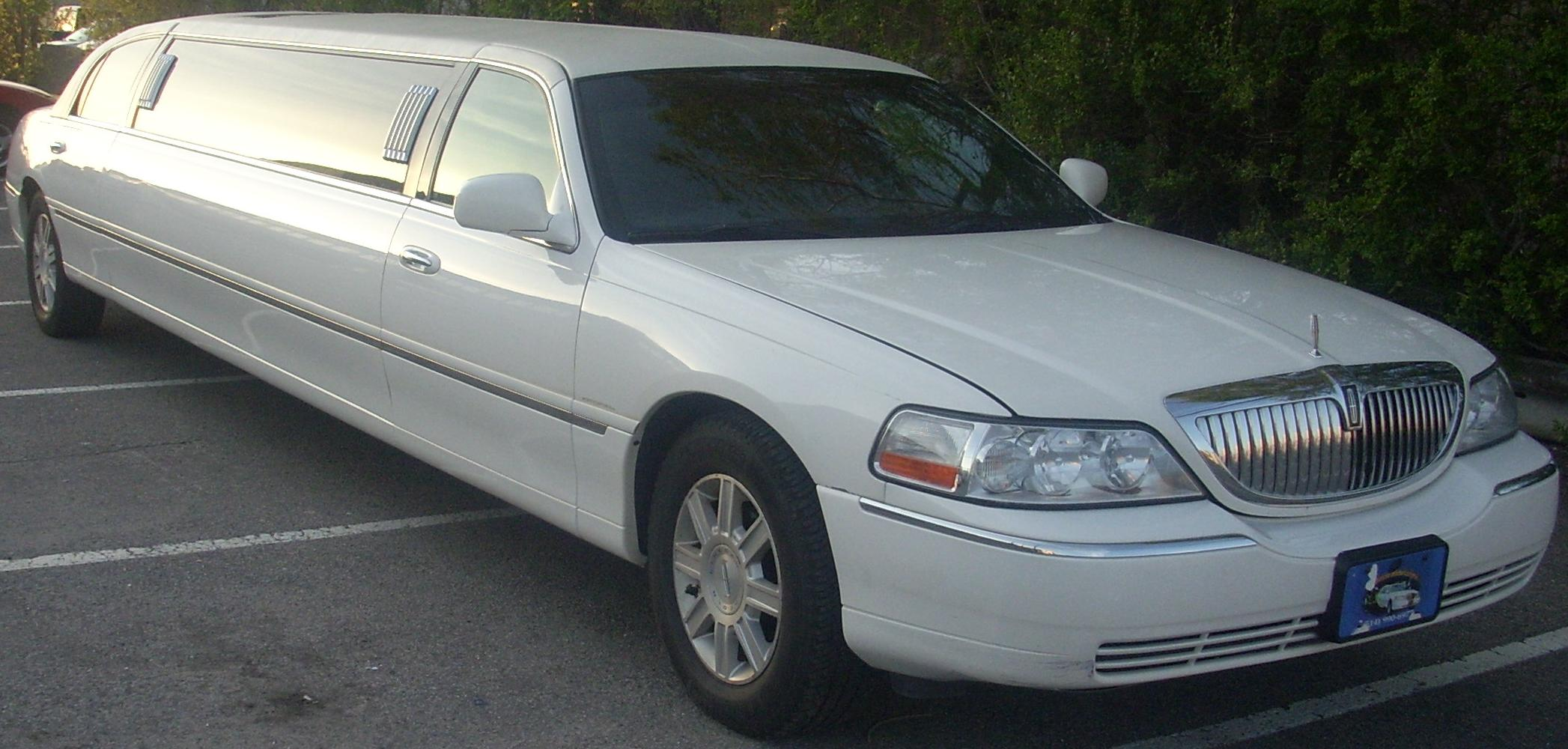 2003-present Lincoln Town Car photographed in Montreal, Quebec, Canada.